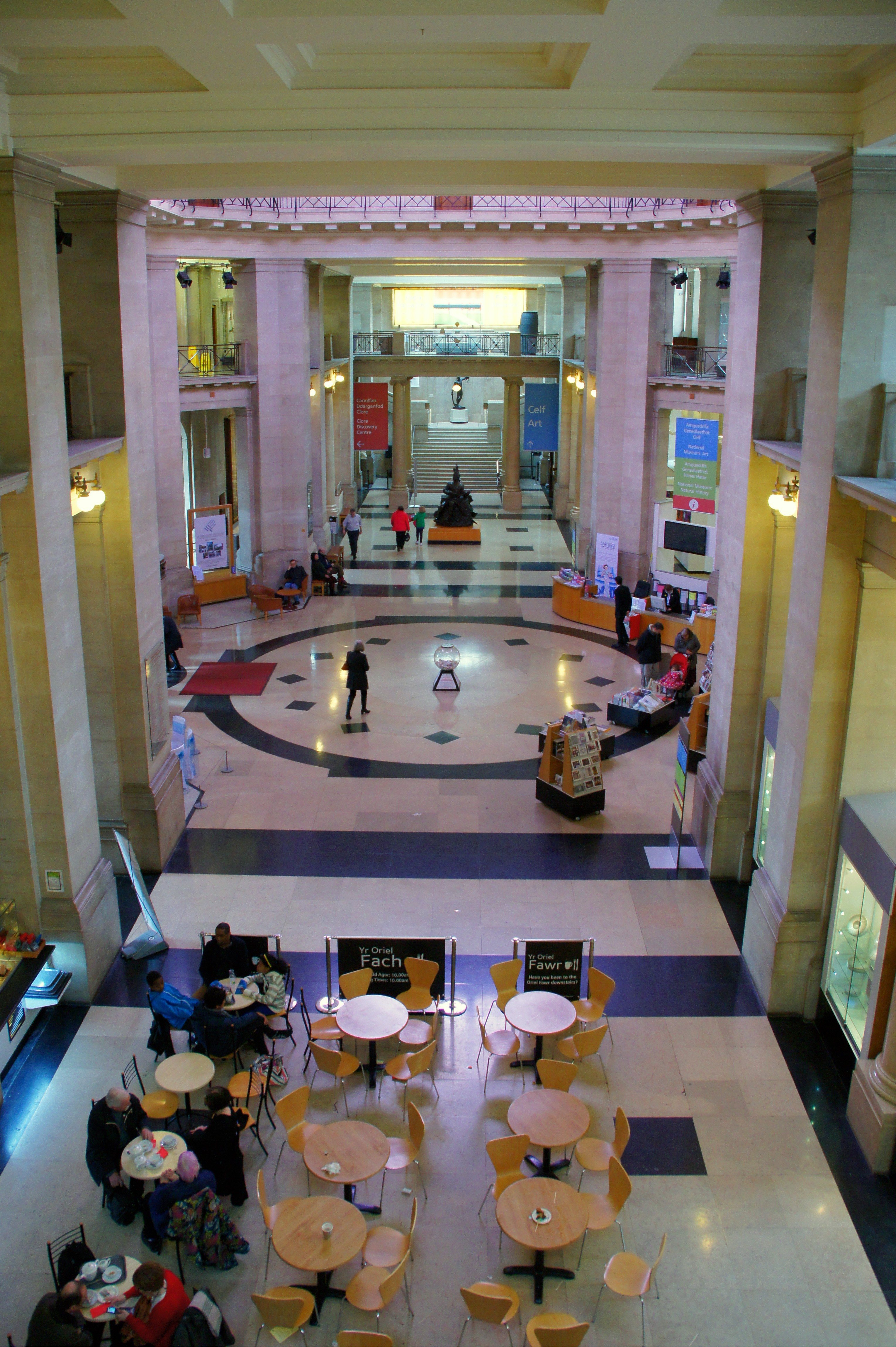 National Museum Cardiff, Wales